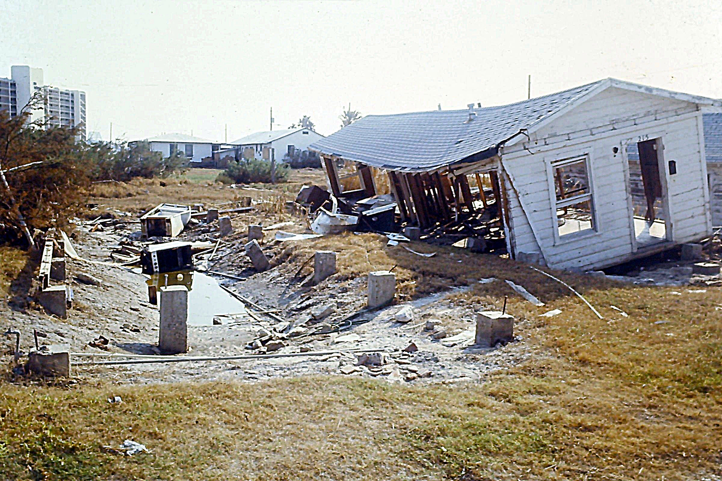 Smashed off the Foundation in Corpus Christi TX by Hurricane Allen. Pictures taken on Corpus Christi Beach a few weeks after Hurricane Allen landed. Most of the structures in these photos were damaged beyond repair and had to be demolished.